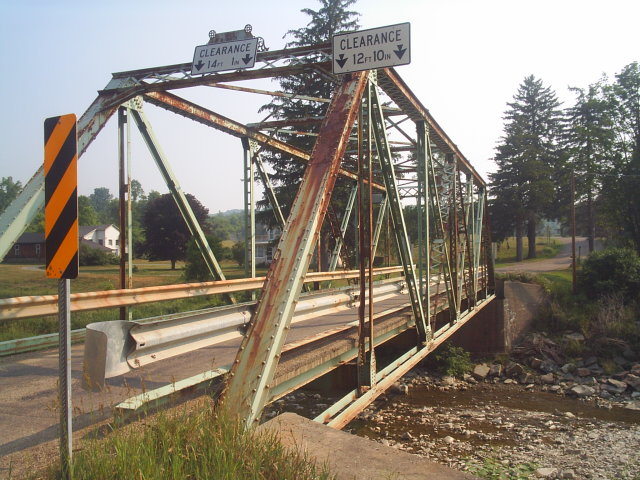 Austinburg Bridge over Troups Creek in Brookfield Township, Tioga County, Pennsylvania.